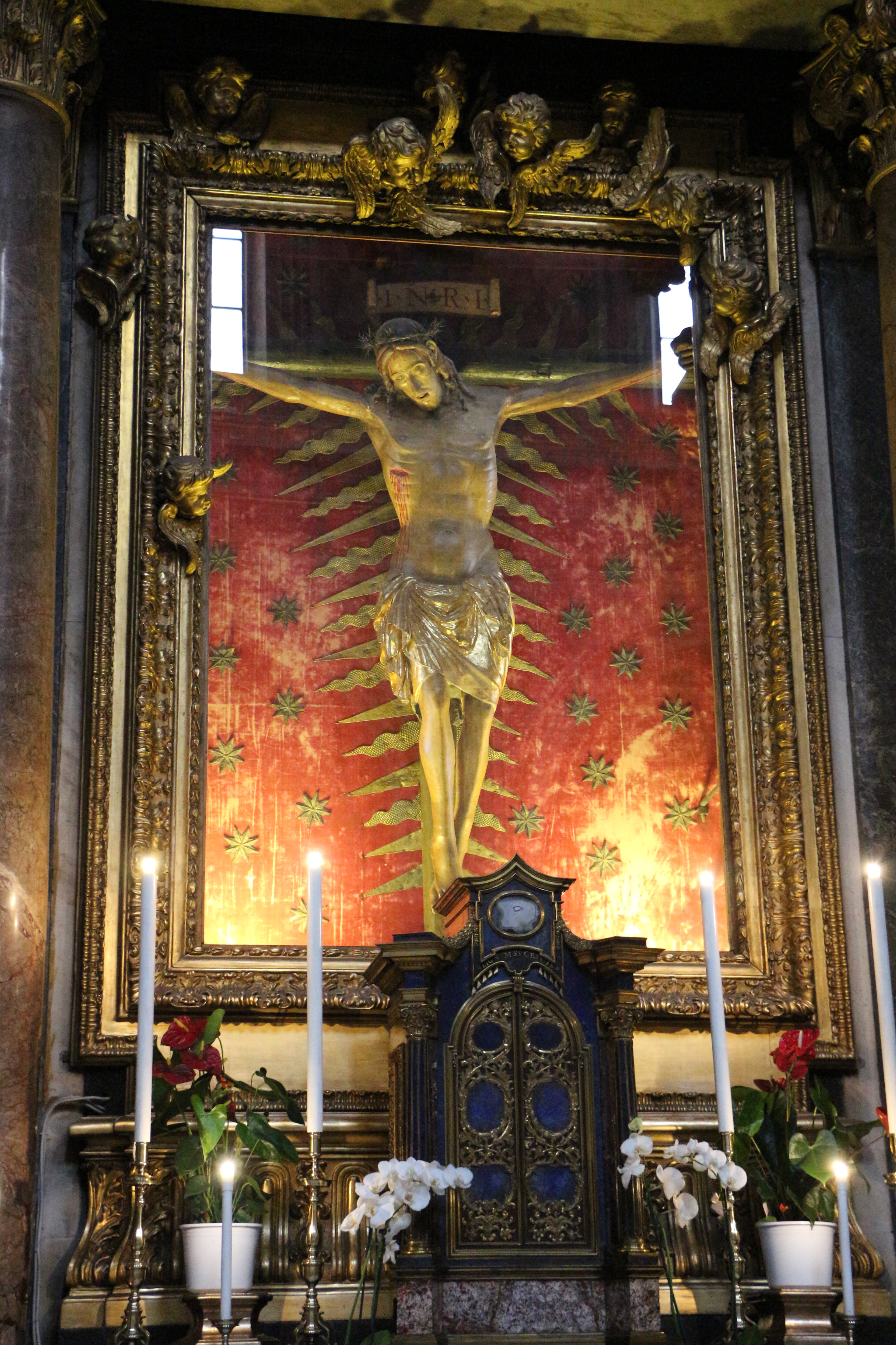 San Marcello al Corso (Rome)